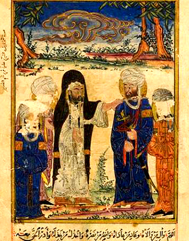 The Investiture of Ali at Ghadir Khumm, Edinburgh University Library MS Arab 161, A.H. 707 / A.D. 1307–8, illustrating Al-Biruni's Chronology of Ancient Nations